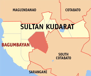 Map of the Sultan Kudarat showing the location of Bugumbayan